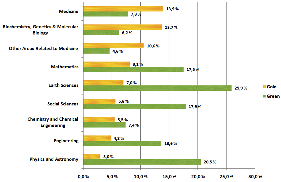 The availability of gold and green OA copies by scientific discipline. The disciplines are shown by the gold ratio in descending order, rather than in alphabetical order.